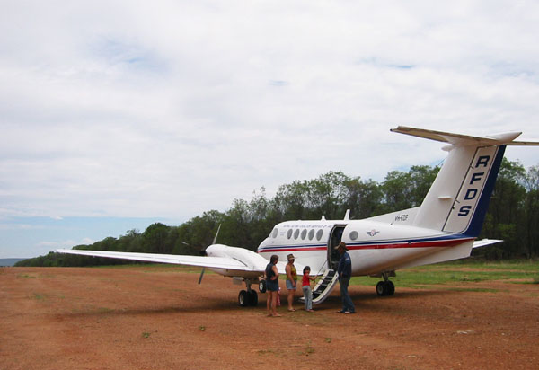 An RFDS Beech KingAir on a remote airstrip in Queensland, Australia. January 2002.